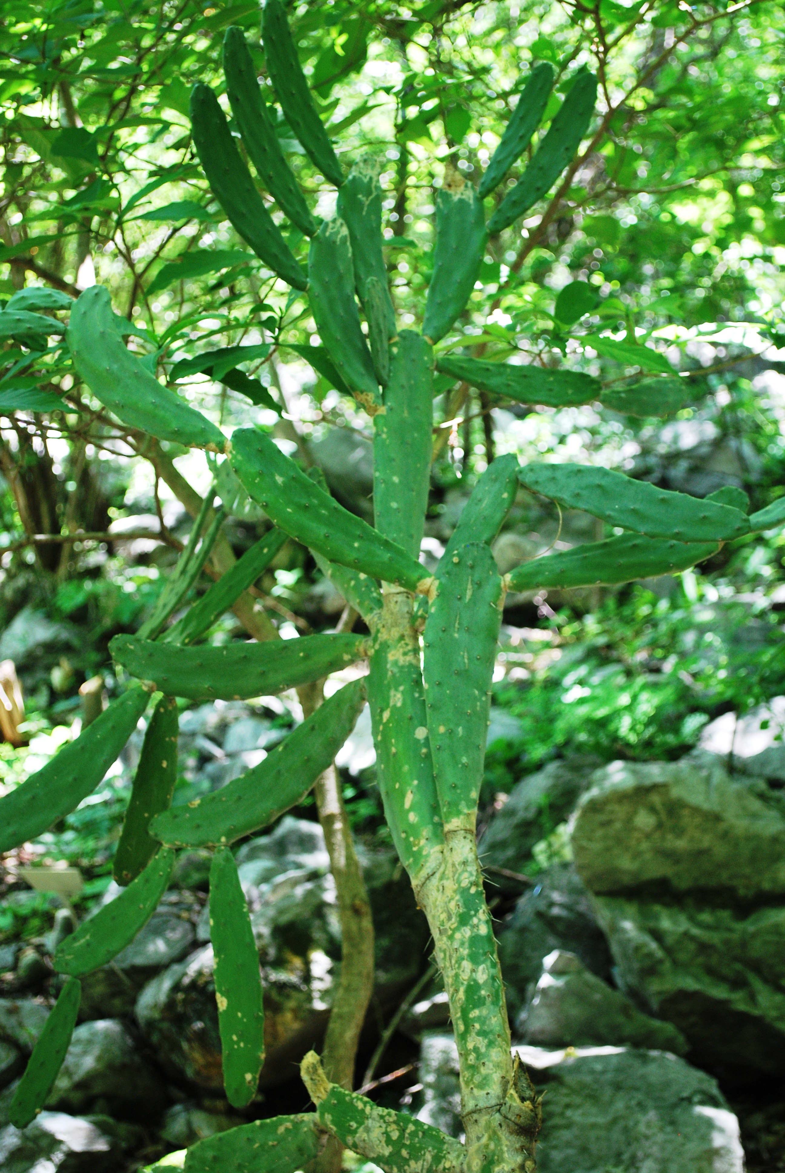 Taken at the Limontitla Botanical Garden in Grutas de Cacahuamilpa National Park in Guerrero state, Mexico